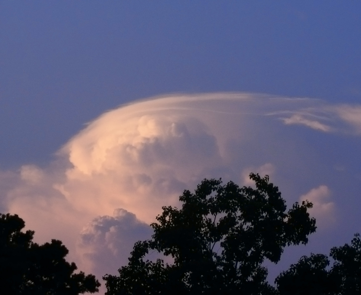 Cumulonimbus cloud with pileus formation.